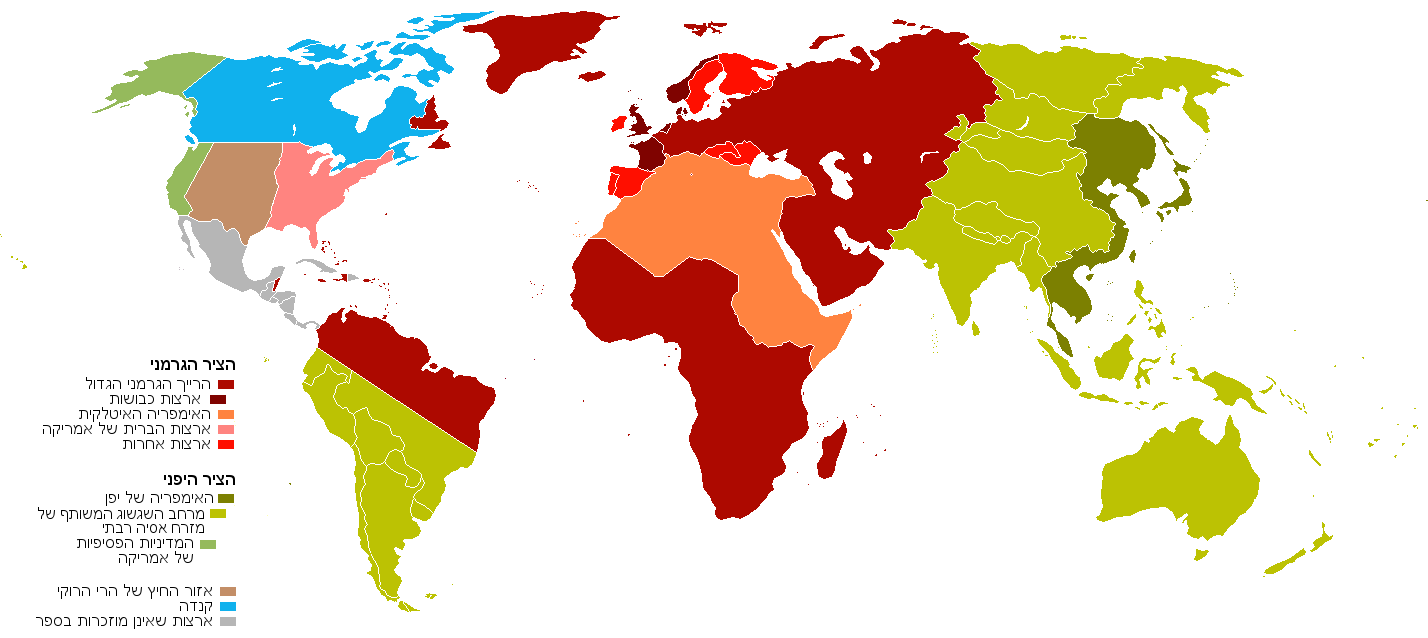 Alternate history world map of Philip K. Dick's The Man In The High Castle.